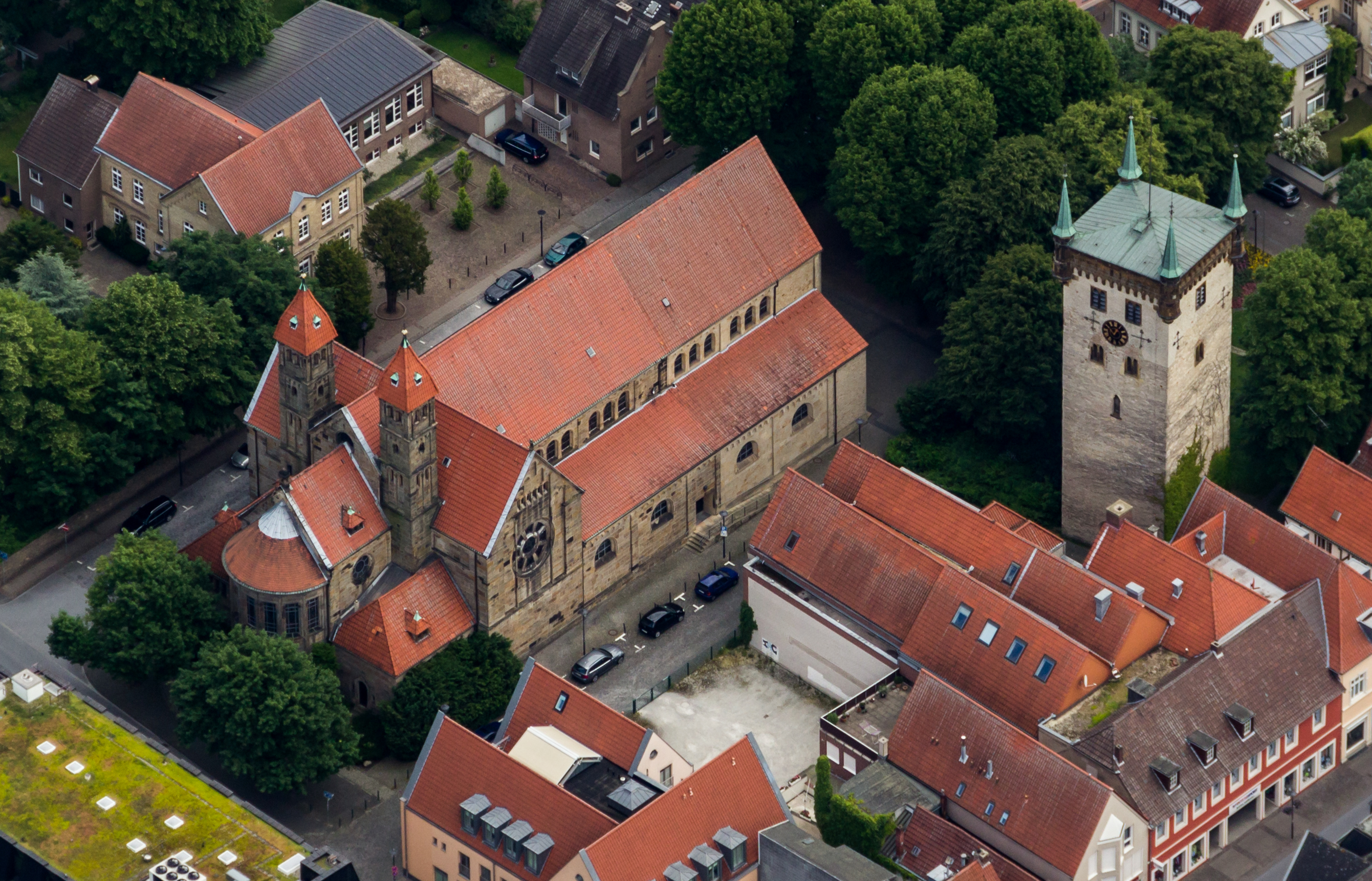 St. Mary's Church, Warendorf, North Rhine-Westphalia, Germany This image shows a heritage building in Germany, located in the North Rhine-Westphalian city Warendorf (no. 148).